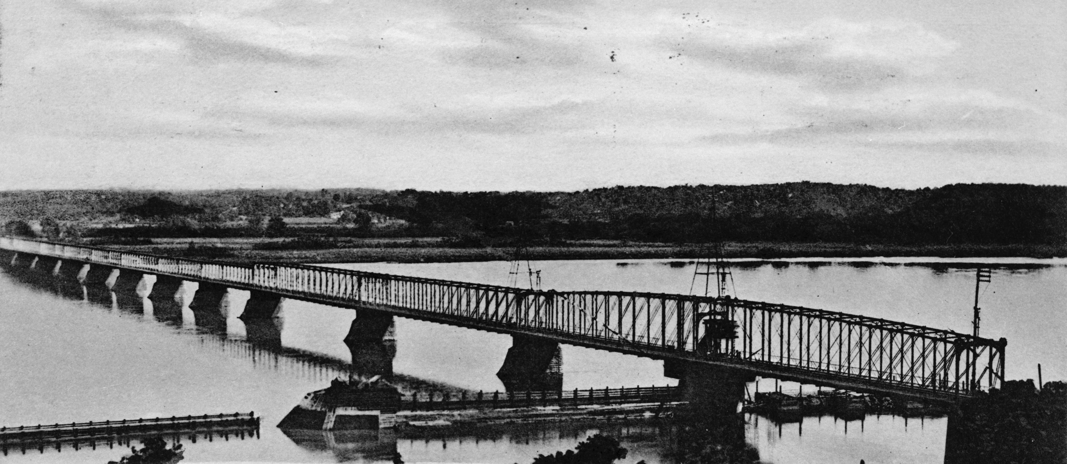 PHOTOCOPY OF POSTCARD (ORIGINAL IN THE POSSESSION OF THE STATE HISTORICAL SOCIETY OF IOWA) POSTMARK 1906 ORIGINAL (1869-71) KEOKUK AND HAMILTON BRIDGE, FROM NORTHWEST - Keokuk and Hamilton Bridge, Spanning Mississippi River, Keokuk, Lee County, IA